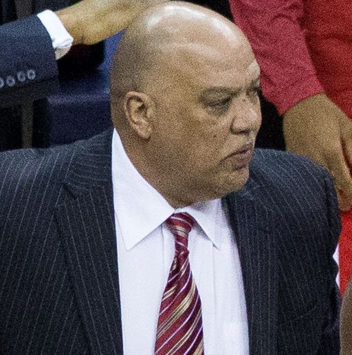 New York Knicks at Washington Wizards March 1, 2013 - Wizards assistant coach Don Newman